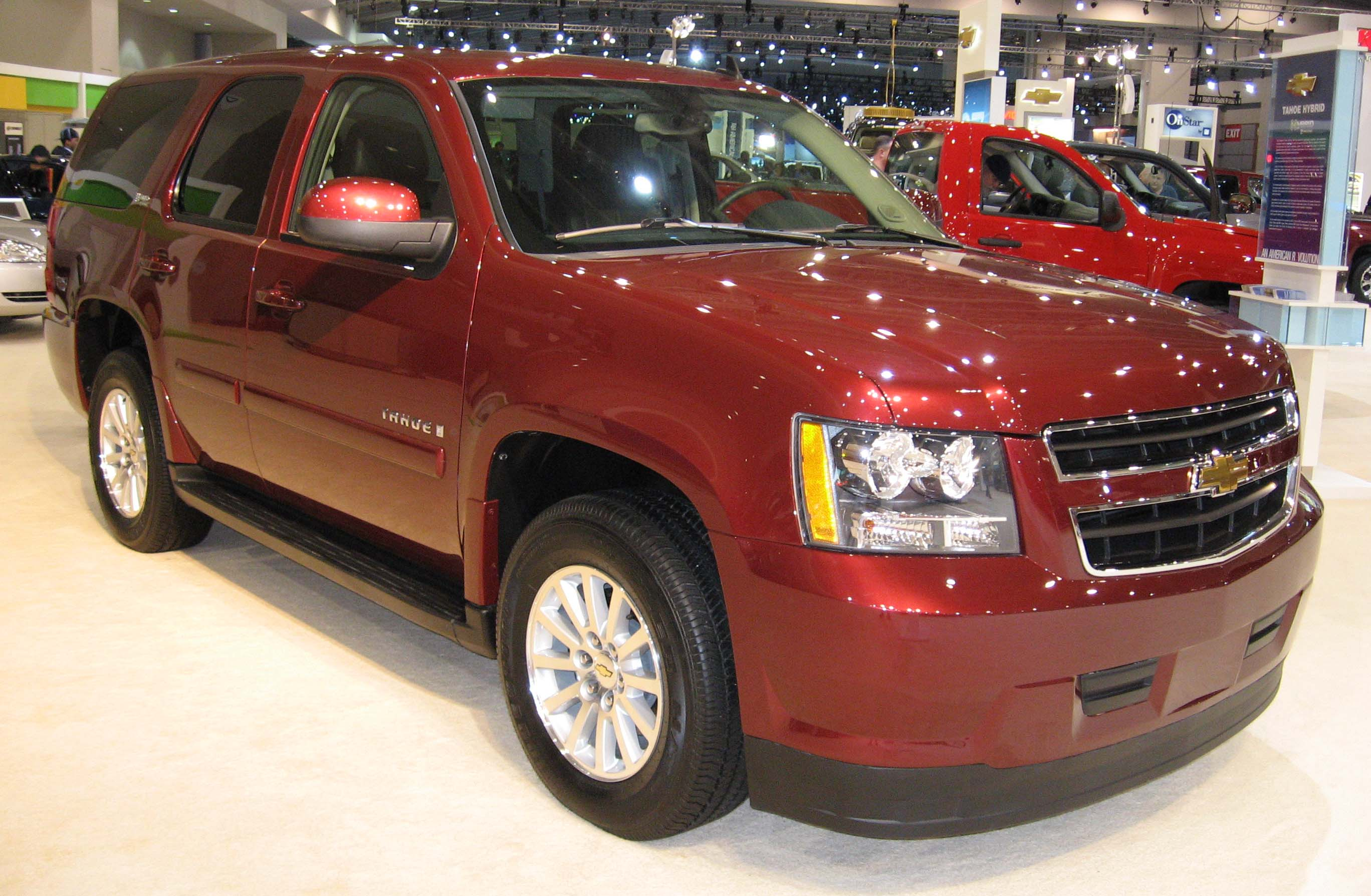 Chevrolet Tahoe Hybrid photographed at the Washington Auto Show.